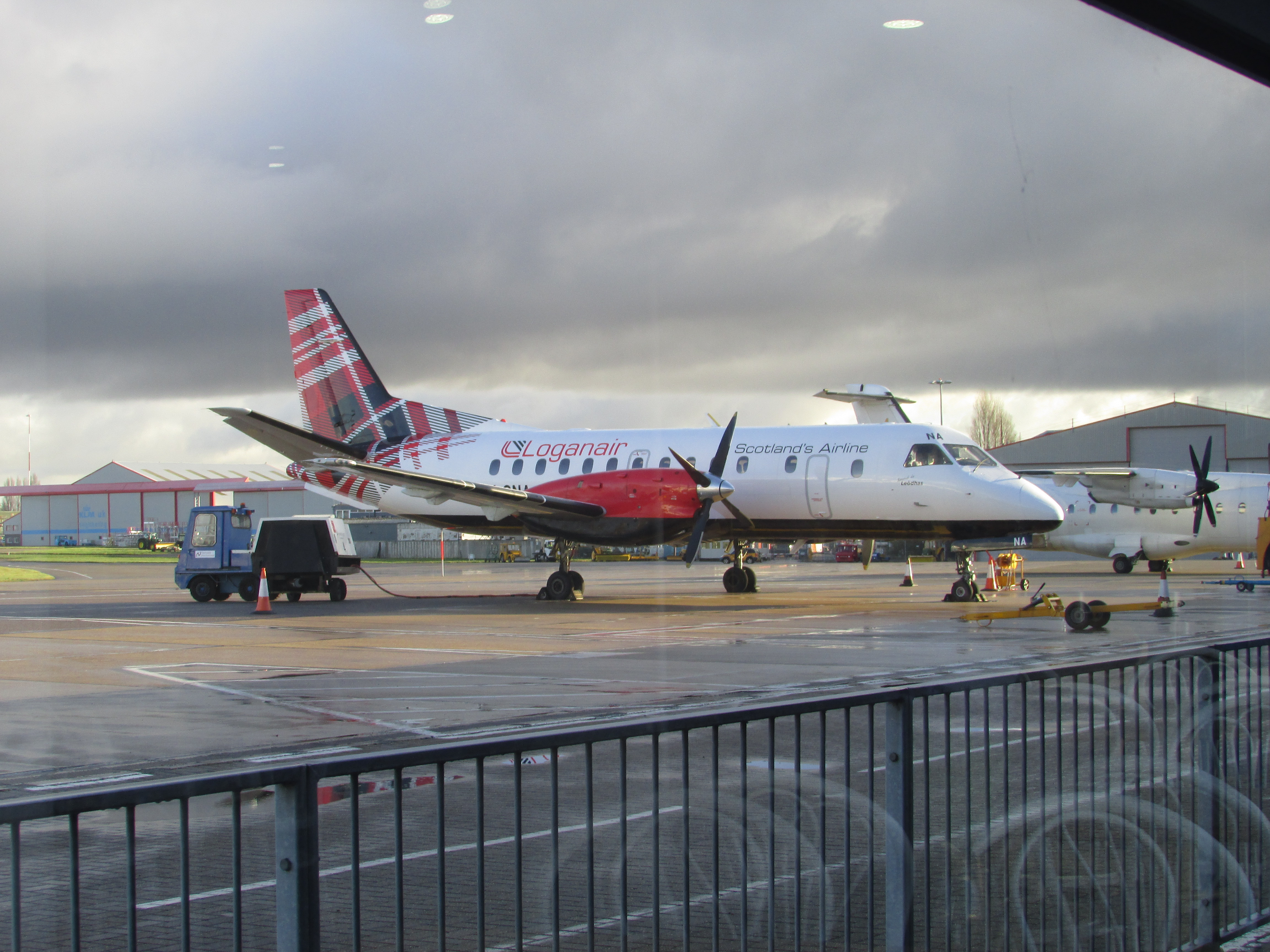 An Aircraft of Loganair parked at Norwich Airport which is located north of the city of Norwich, Norfolk, England.